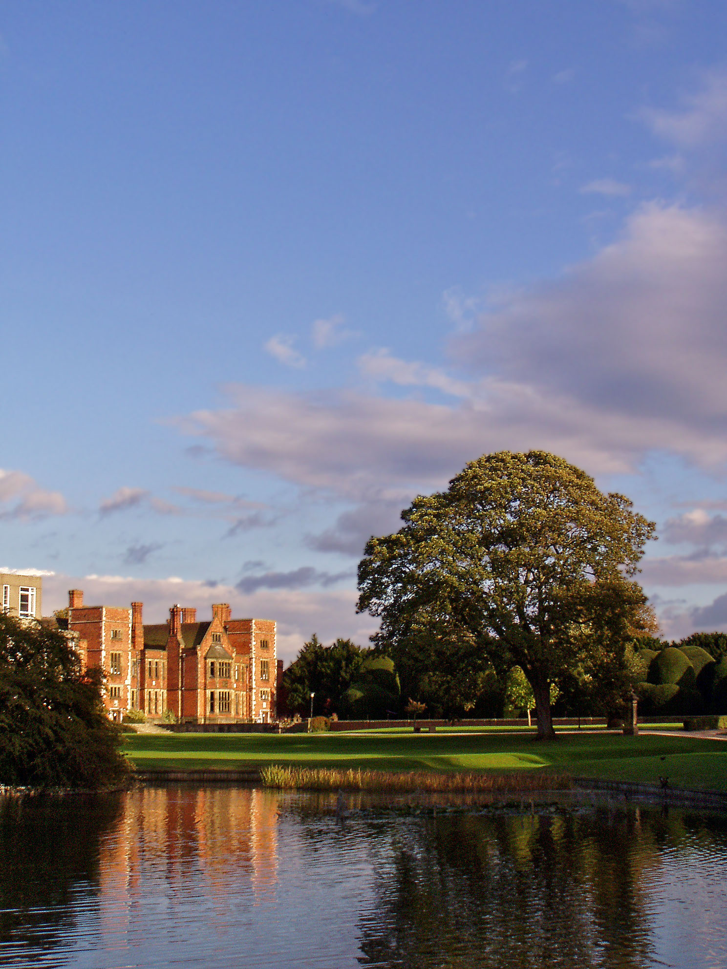 Heslington Hall in York. Photo taken 23 September 2004 by John Slade and released into the public domain.